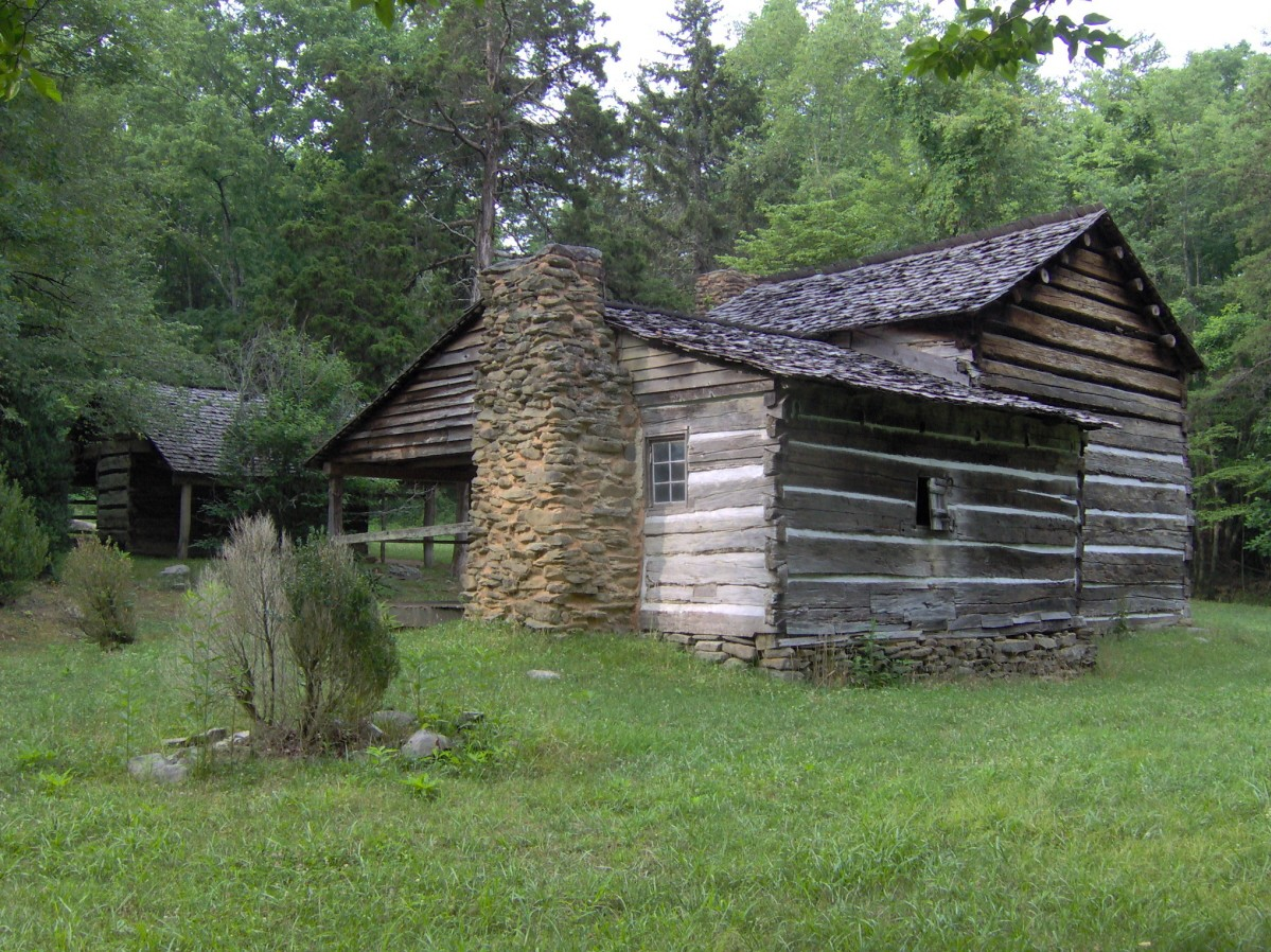 The Walker Cabin at Little Greenbrier in the Great Smoky Mountains National Park of Sevier County, Tennessee, USA. This angle shows the older part of the cabin built by Brice McFalls in the 1840s, with the newer rising beyond. The corn crib is visible on the left, in the distance.